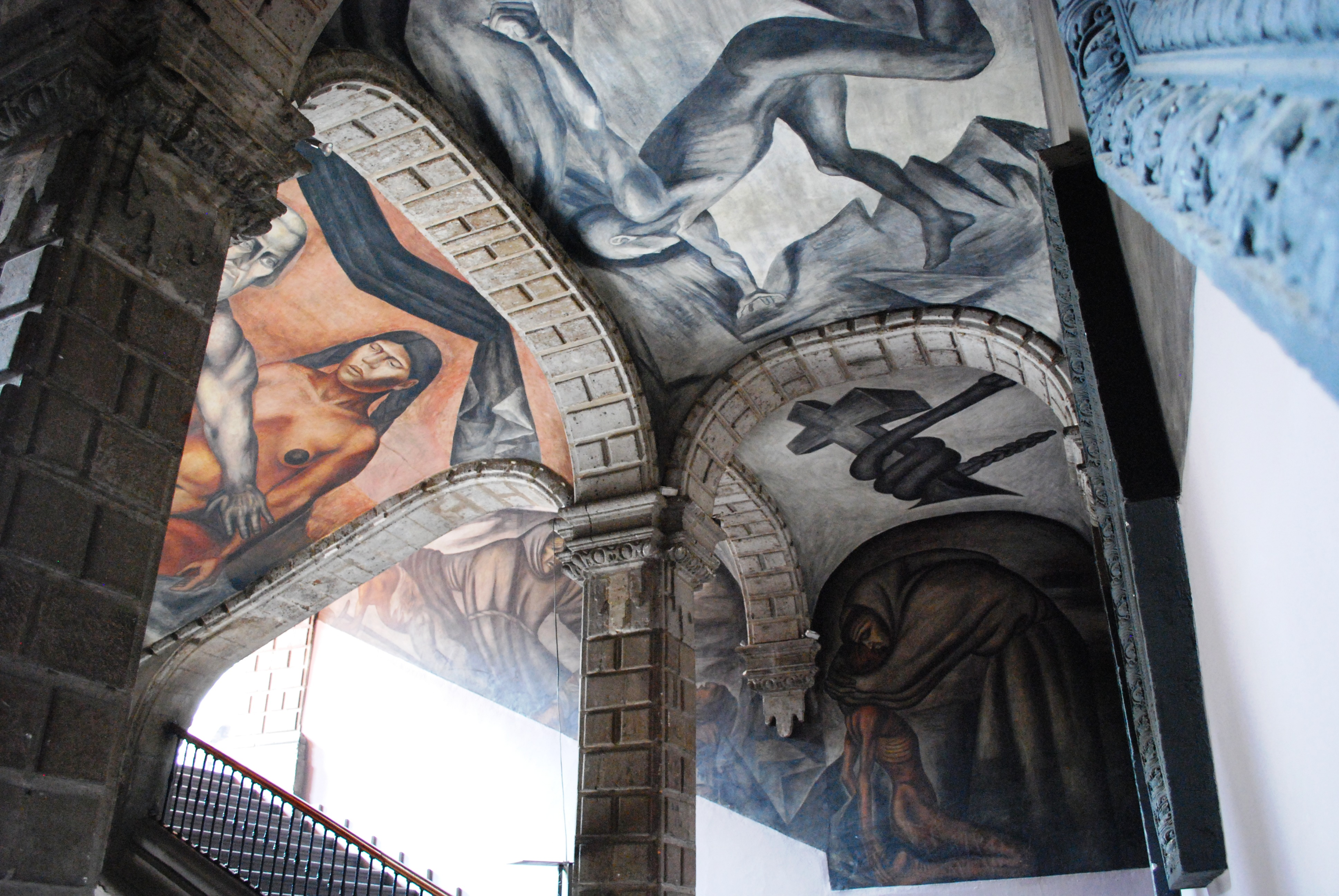 A view of the main stairwell with paintings by Jose Clemente Orozco in San Ildefonso College in the historic center of Mexico City